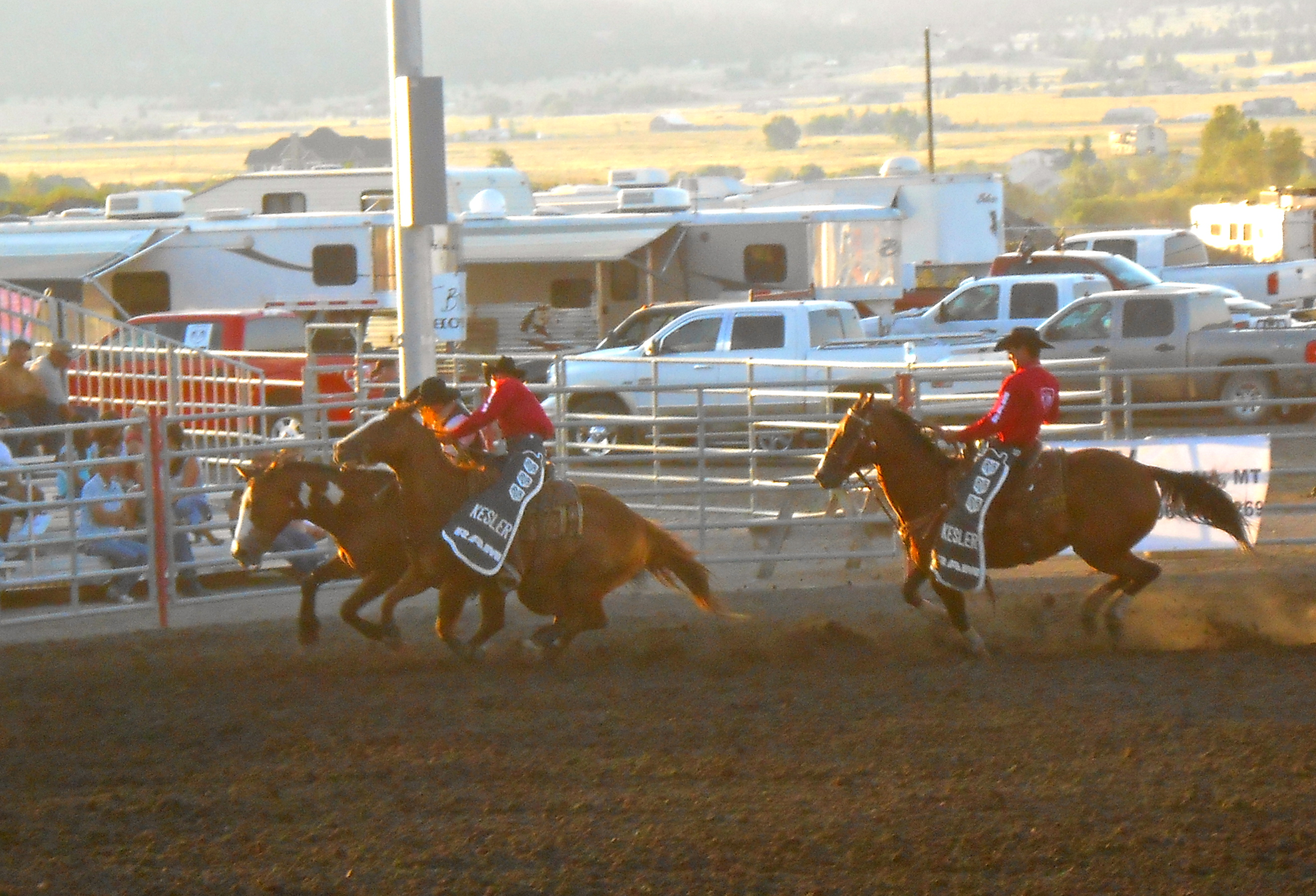 Last Chance Stampede Rodeo, July 25 2013